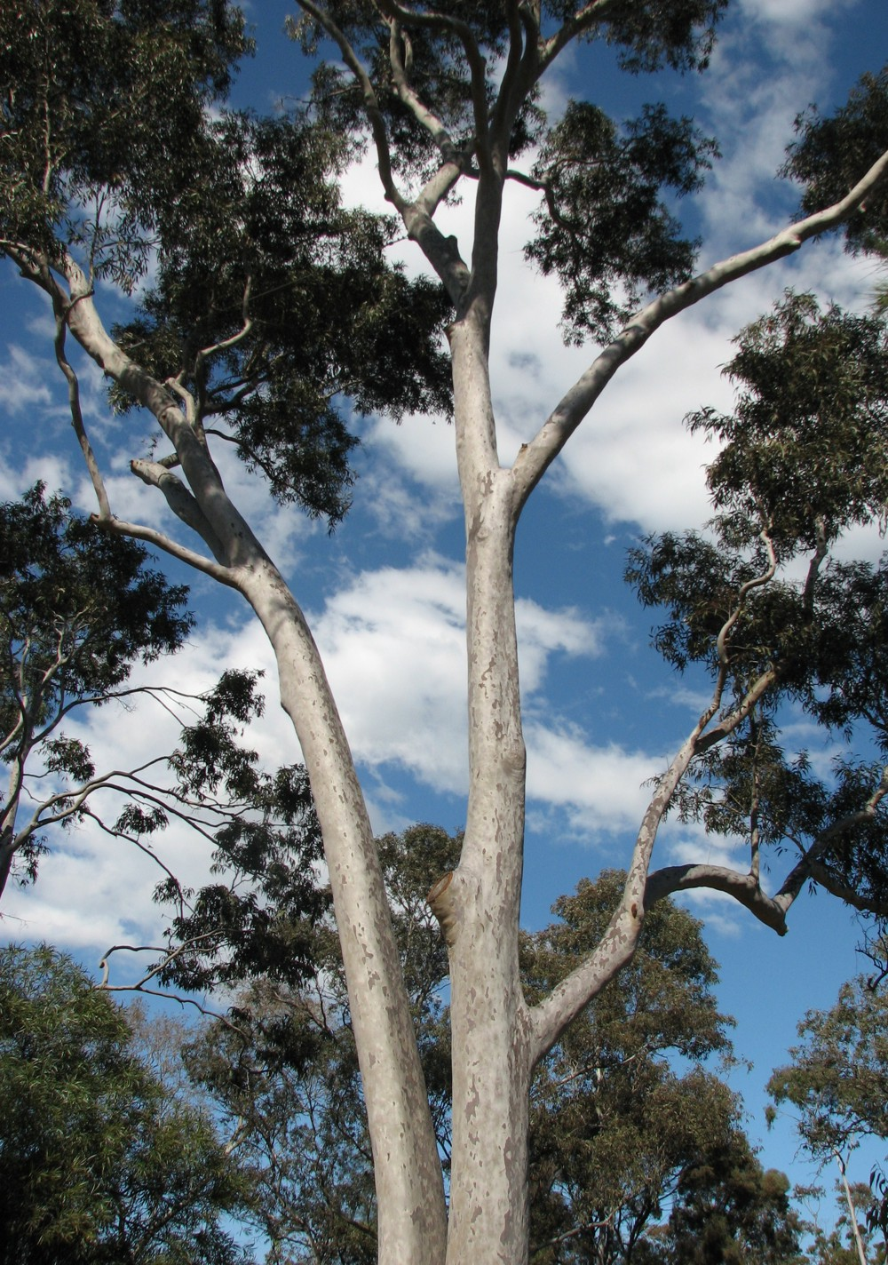 Corymbia maculata(cultivated) Burnley Gardens, Burnley, Victoria, Australia